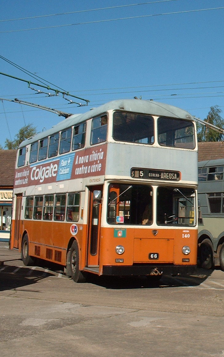 at The Trolleybus Museum at Sandtoft: No. 140 from Porto (Lancia)